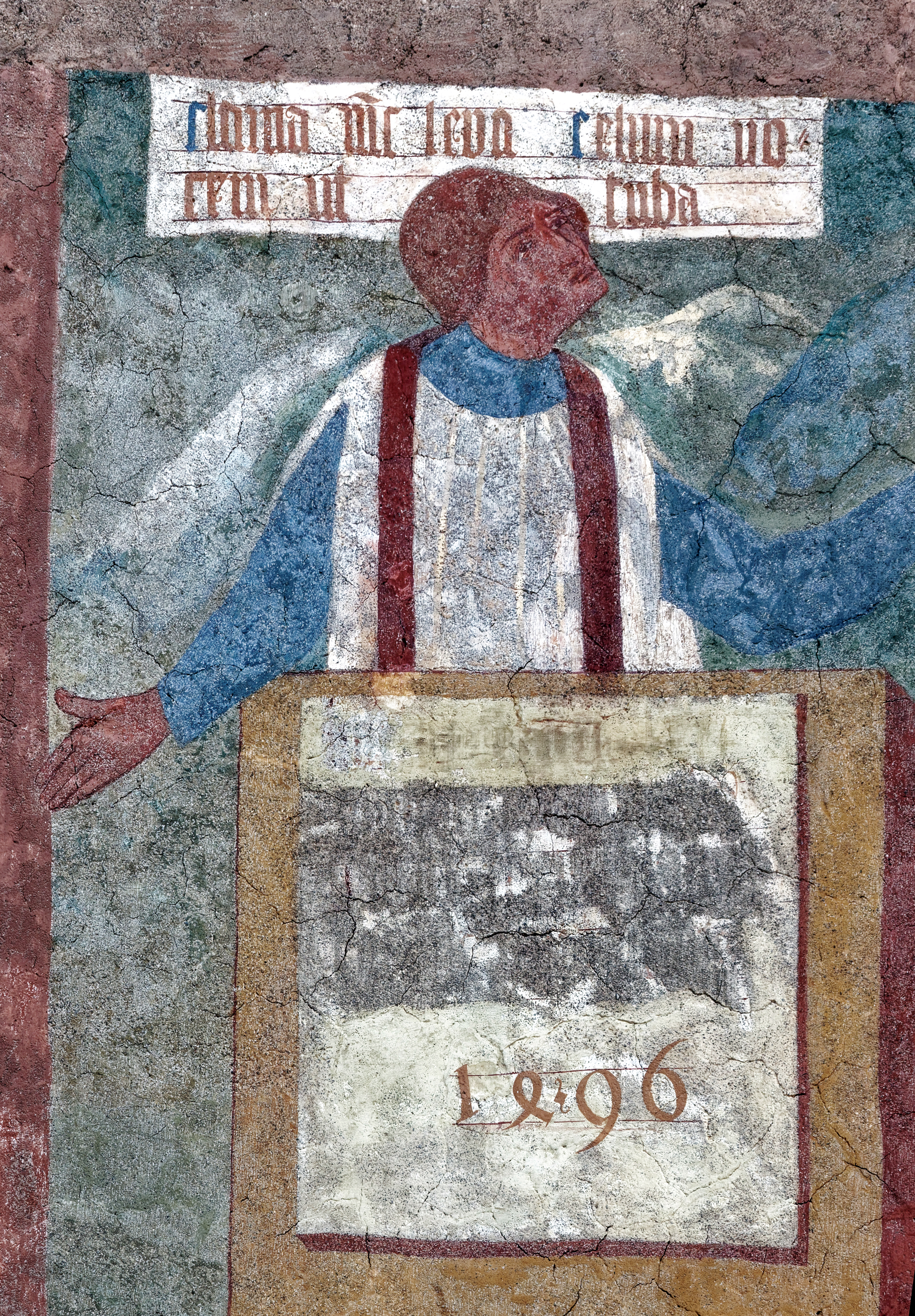 Glurns (South Tyrol) in winter.